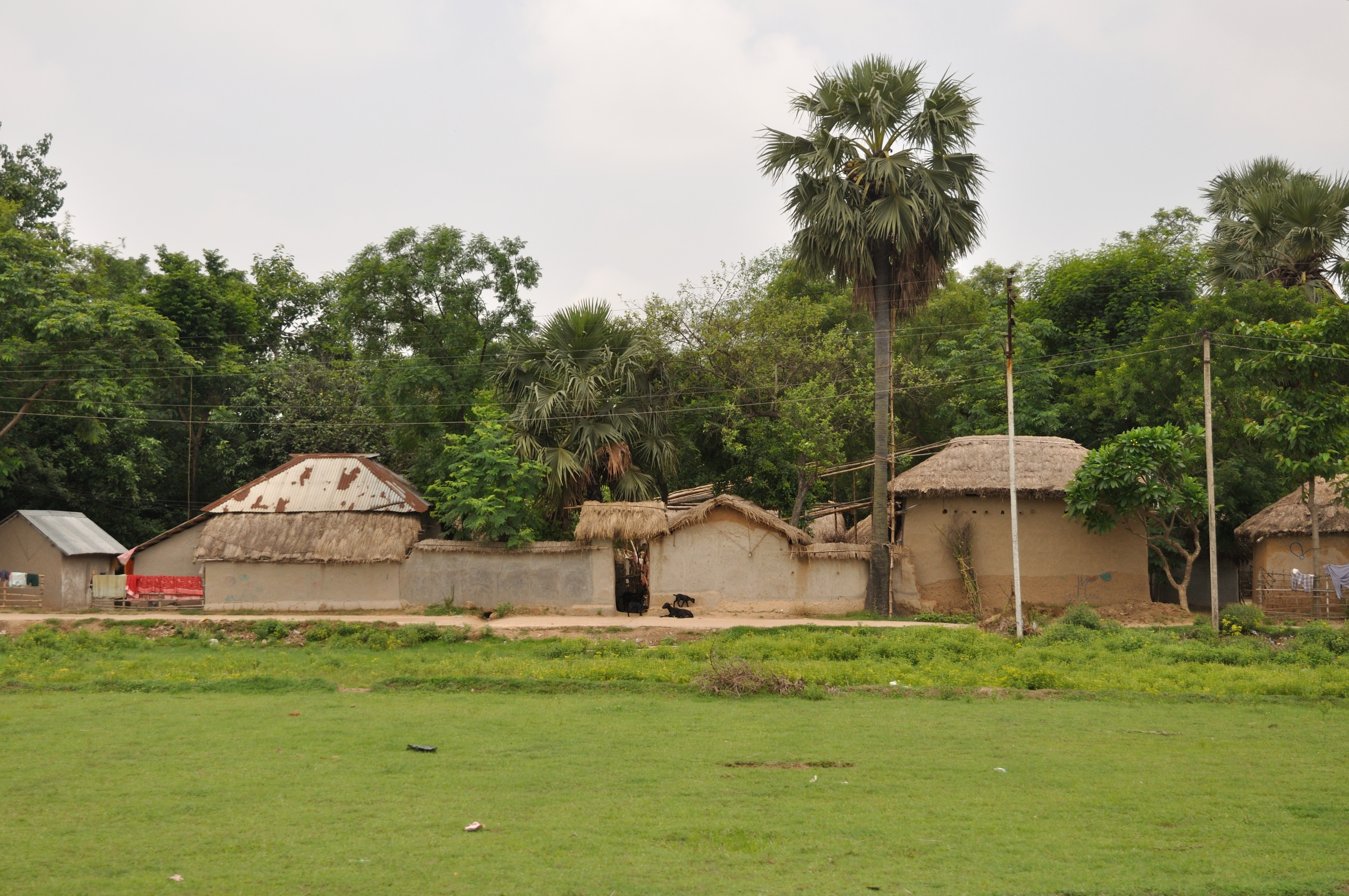 Photographed in Birbhum district, West Bengal.